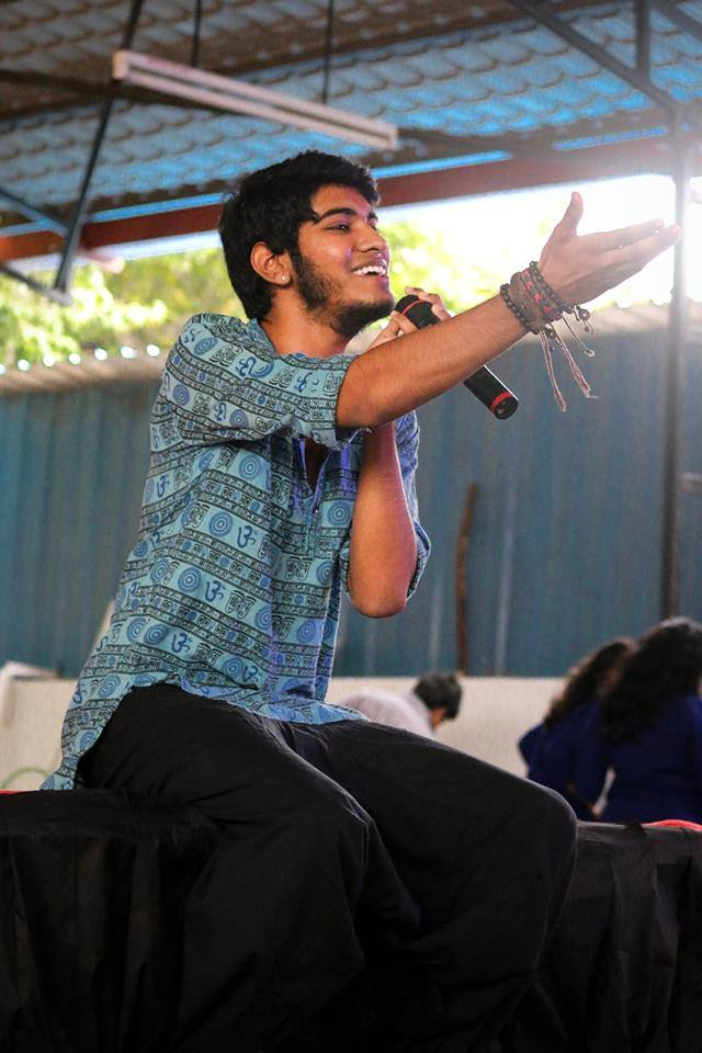 varun's performance at MOP Vaishnav College